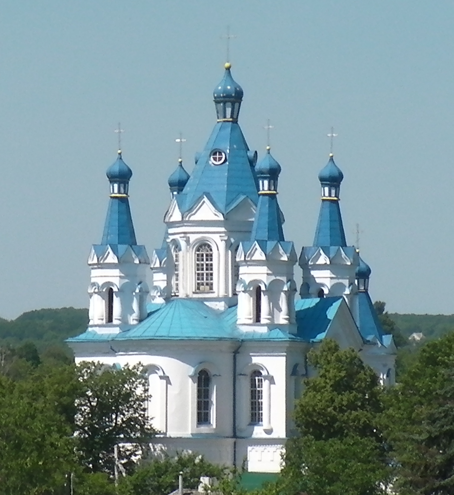 View west (camera zoomed) of a blue church from near St-Peter-and-Paul church in the old town of Kamianets-Podilskyi (Кам'янець-Подільський), Ukraine